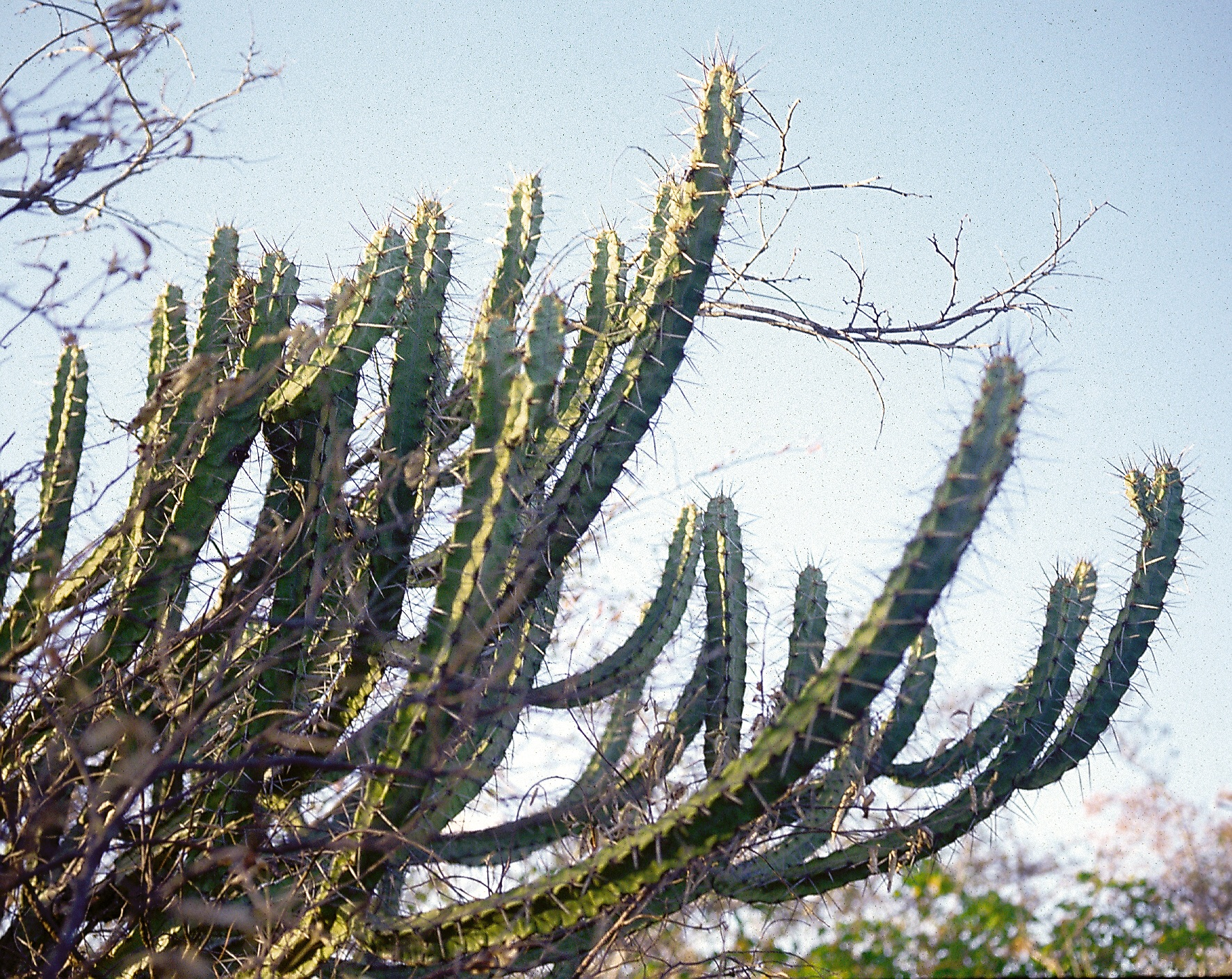 Candelaber in habitat, Bahia, Brasil